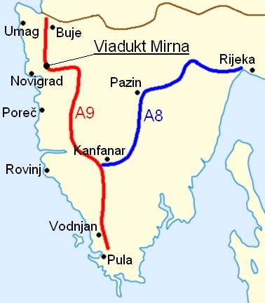 Loacation of Mirna bridge, Croatia